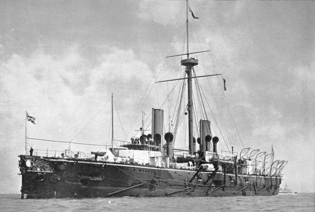 Photograph of British armoured cruiser HMS Warspite. This shows Warspite with the later military mast between the funnels, which replaced the original 2 brig masts.